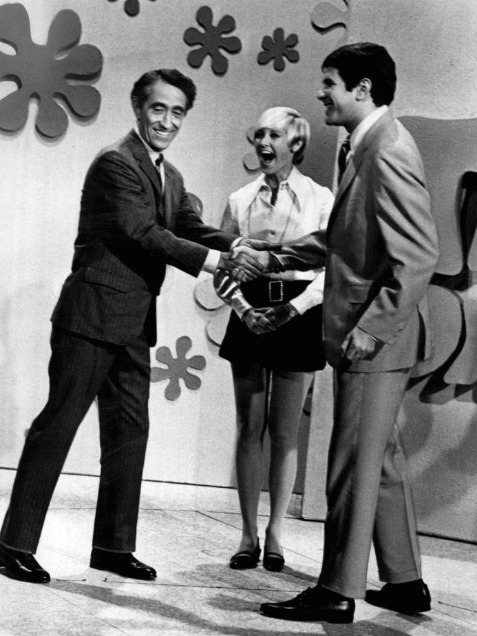 Photo from the television game show The Dating Game. Comedian Pat Paulsen (left) made a guest appearance on the program.